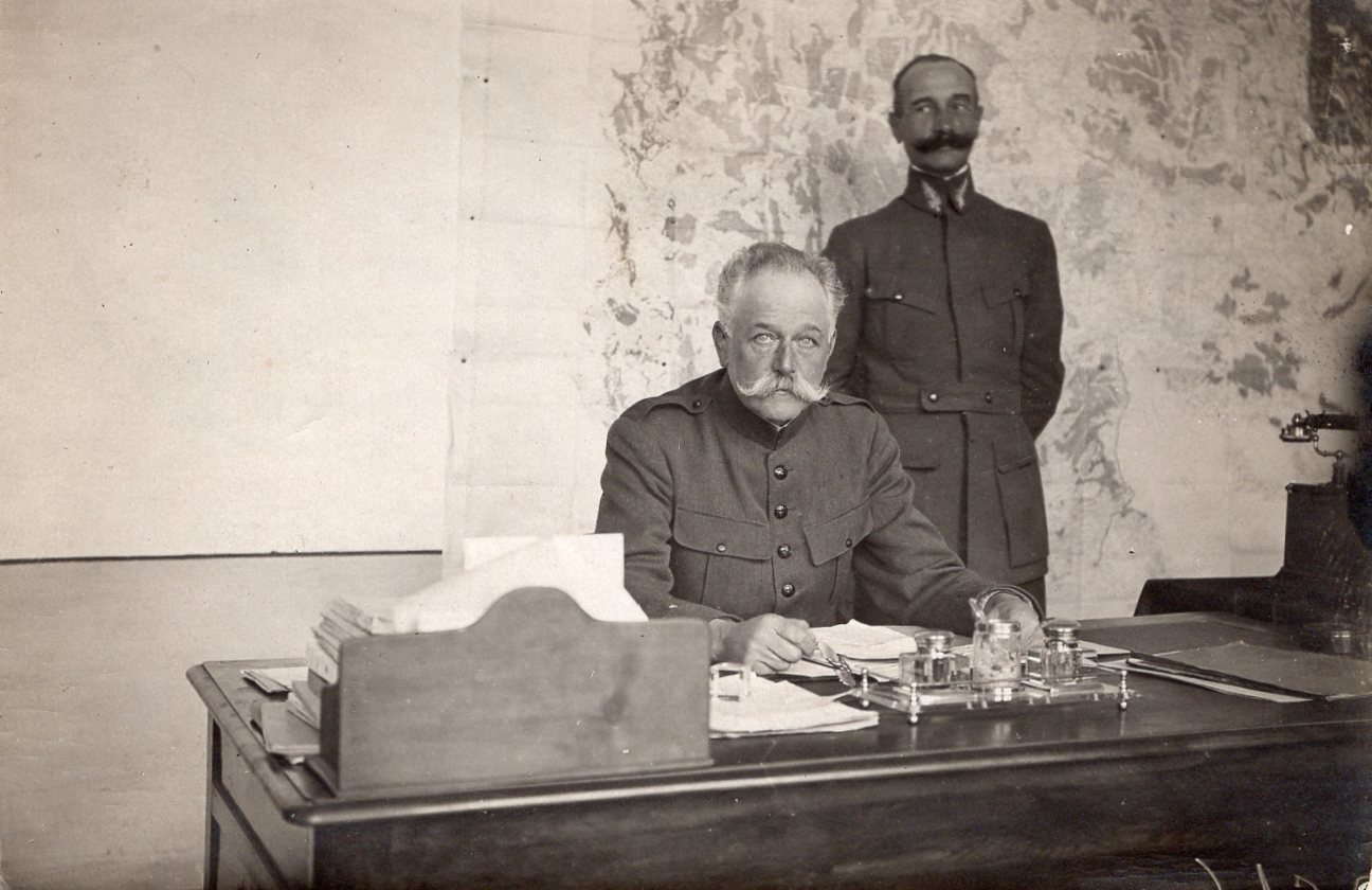 General Maurice Sarrail, the chief commander of allied troops in Thessaloniki, and his chief of staff in Thessaloniki This media file is produced by Wikipedian in Residence in Category:Wikipedian in Residence at DARM in 2016.